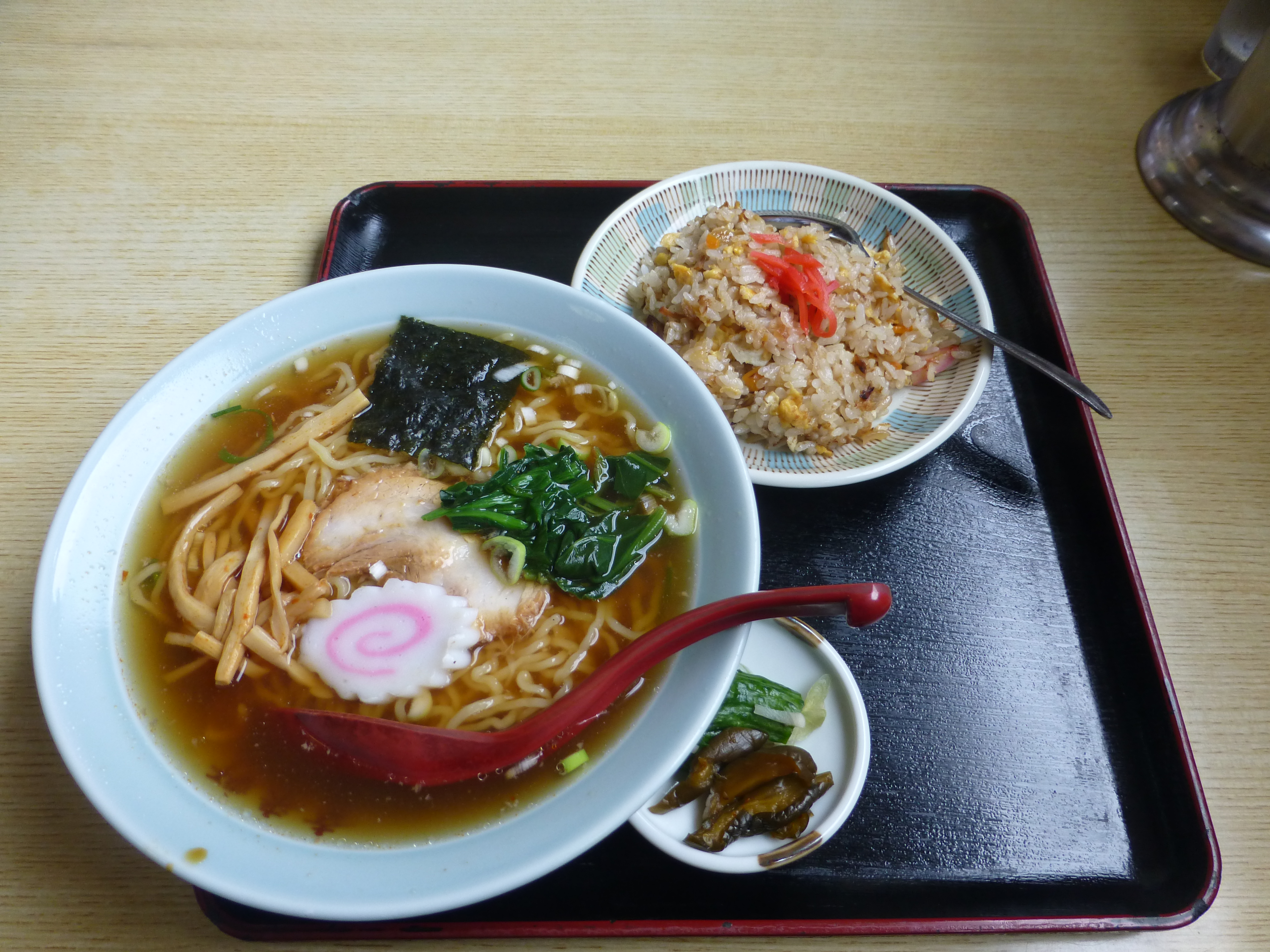 Ramen with half sized fried rice. 中文（台灣）: 日式拉麵和半份炒飯套餐